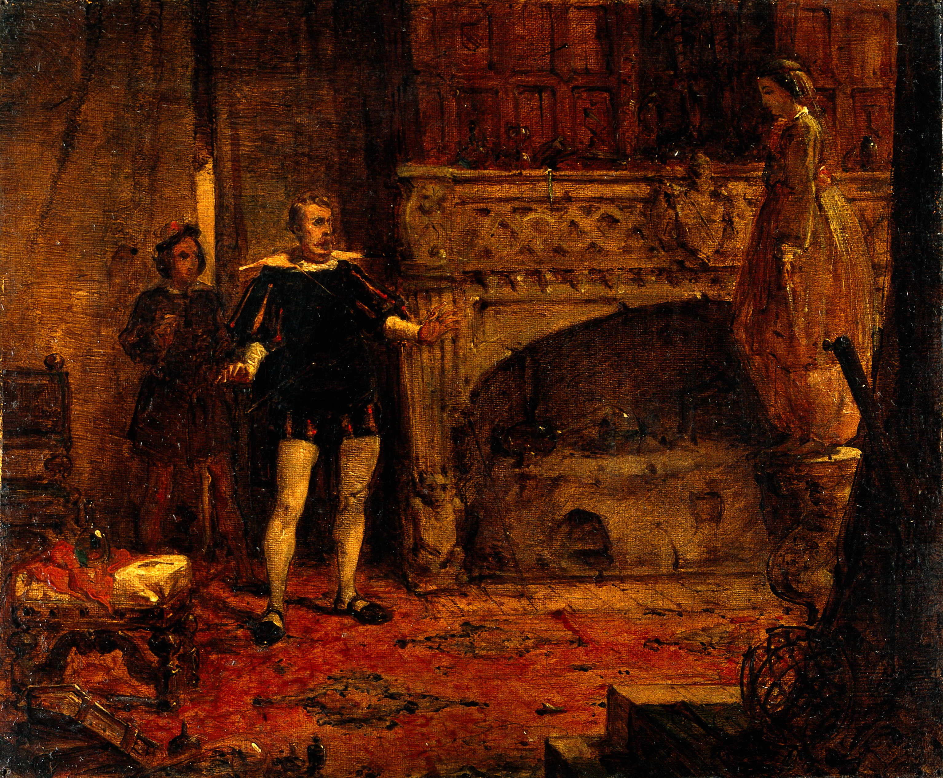 Scene from Sir Walter Scott's "Anne of Geierstein": Hermione takes refuge in the laboratory of Sir Herman, an Austrian alchemist. Oil painting. Iconographic Collections